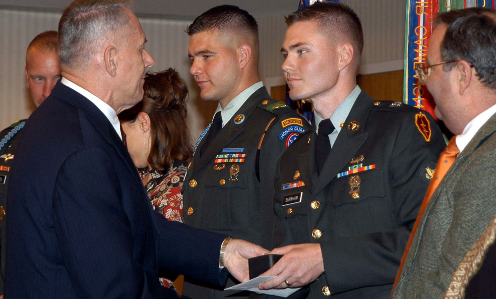 U.S. Army photograph. From the Sergeant Major of the U.S. Army Web site, (NCO and Soldier of the Year Competition, 2003) Caption Reads: Spc. Russell A. Burnham, right, receives an award from former Sgt. Maj. of the Army Richard Kidd. Burnham and Staff Sgt. James W. Luby, center, were selected as the Soldier and Noncommissioned Officer of the Year, respectively. U.S. Army photo by Leroy Council. Standing to the left of Spc. Burnham is his father, Frederick Russell Burnham(b. 1945), a Vietnam war veteran and the grandson of Frederick Russell Burnham (1861-1947), D.S.O.